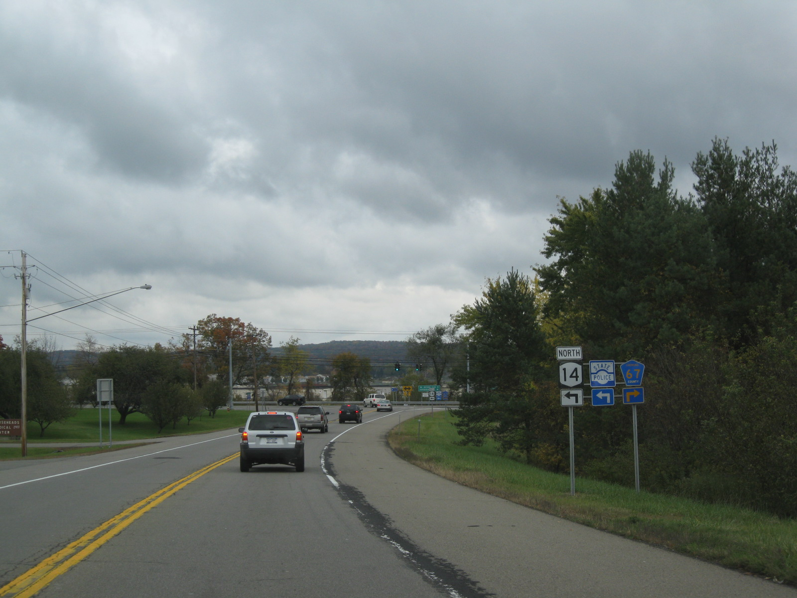 Approaching Chemung County Route 67 on New York State Route 14 northbound near Horseheads. CR 67 was part of NY 14 from the 1920s to the 1960s.